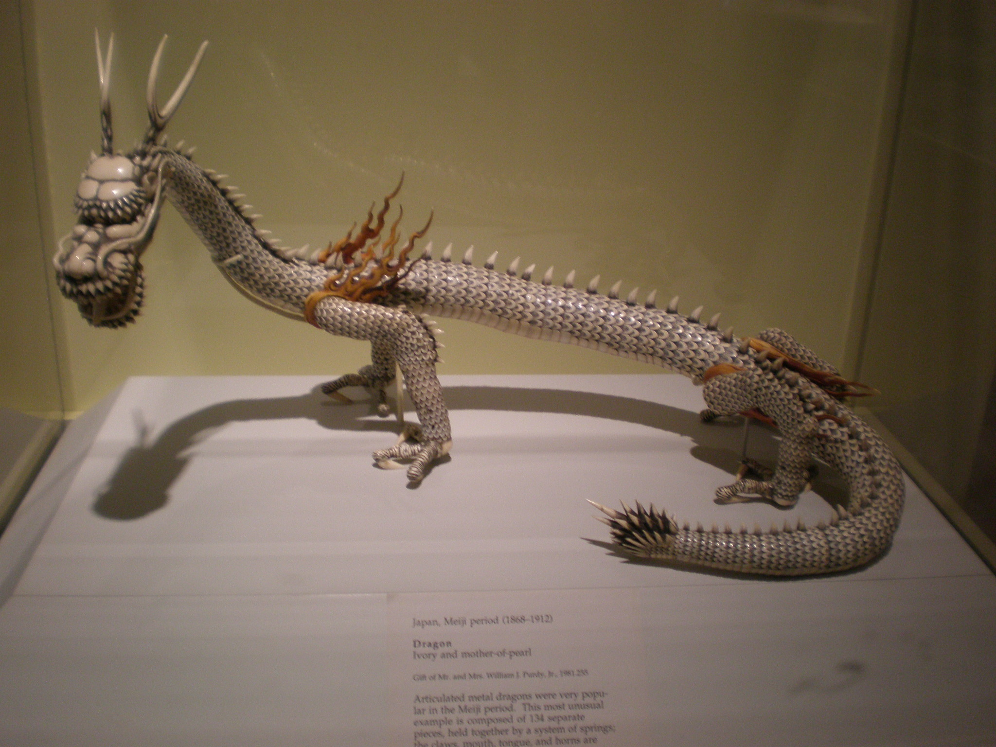 Articulated Meiji period dragon made of metal, ivory and mother of pearl on display at the Iris & B. Gerald Cantor Center for Visual Arts on the Stanford University campus in Stanford, California.